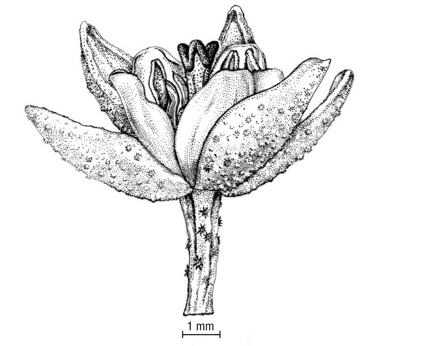 Flower of Nesogordonia tricarpellata